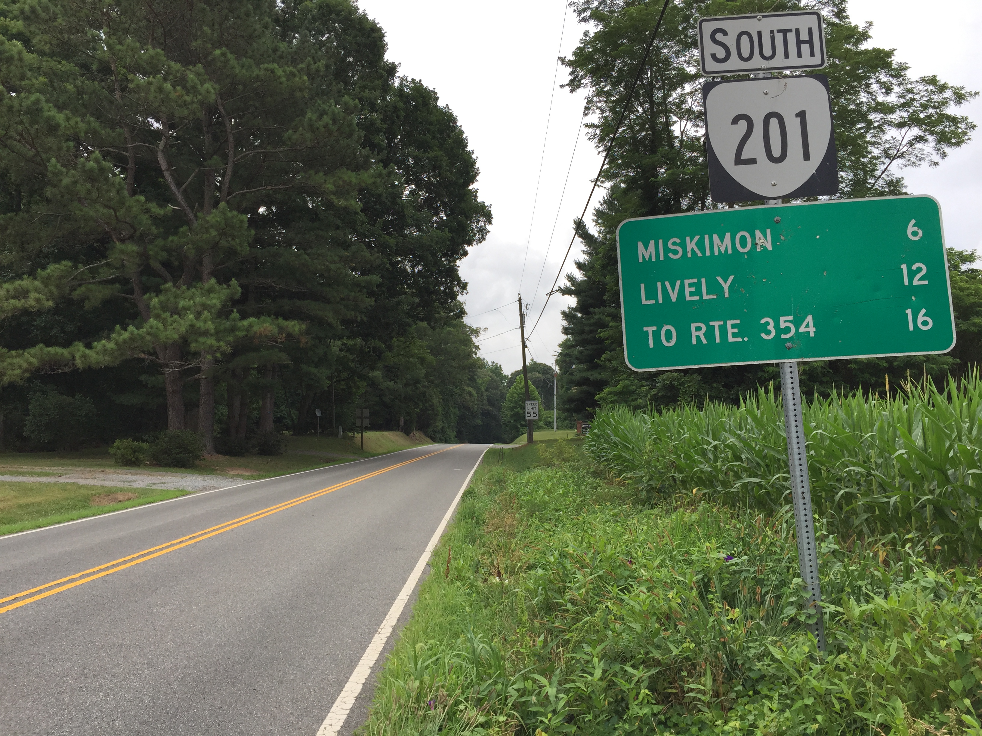 View south along Virginia State Route 201 (Courthouse Road) at Hill Valley Lane in Heathsville, Northumberland County, Virginia